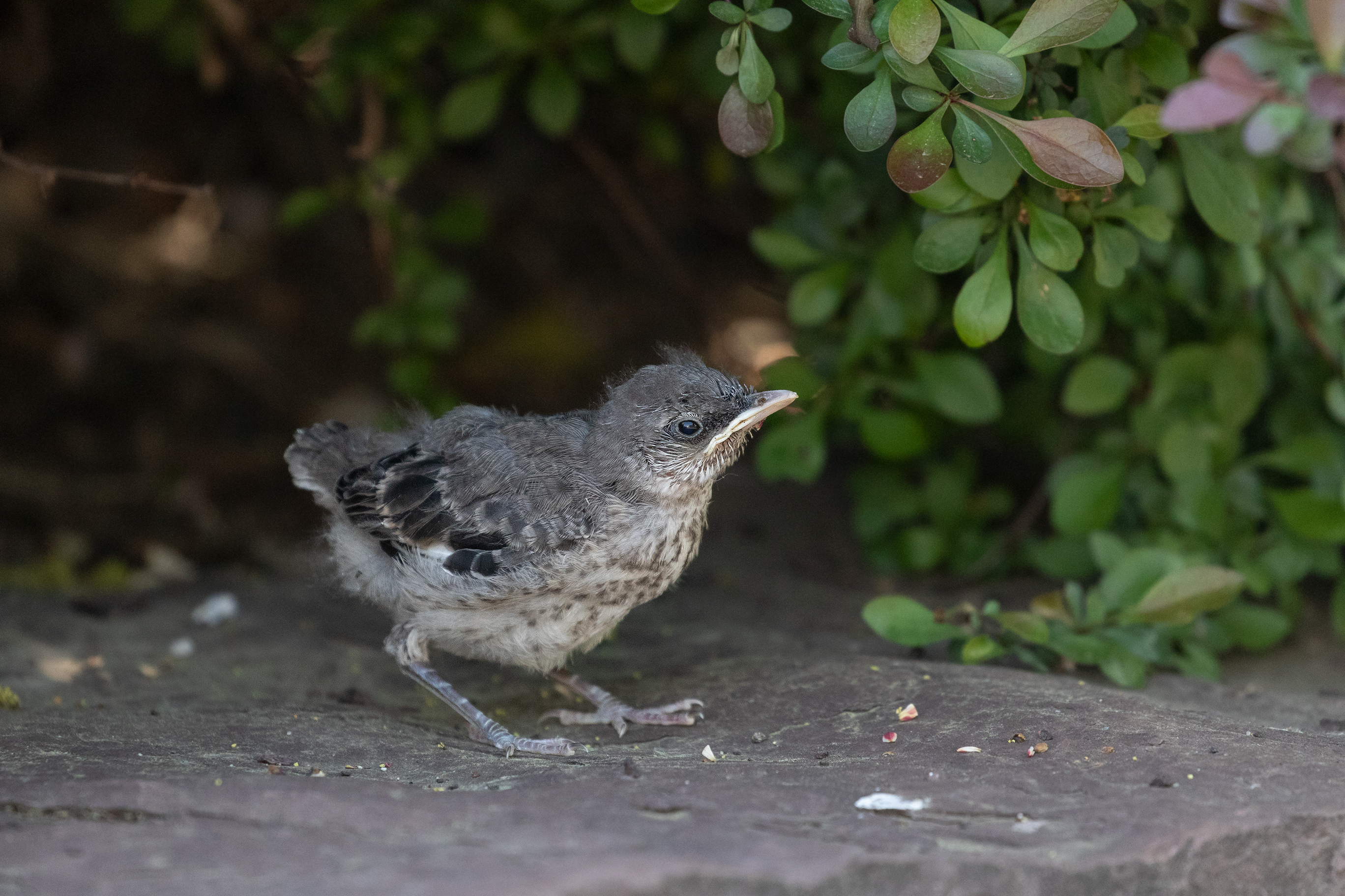 A fledgling Mockingbird waits for a parent to return to feed it in an opening in the garden at Philadelphia's Mathias Baldwin Park.